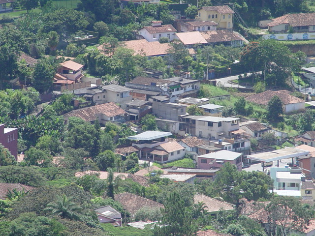 Nova Lima (MG), Brazil - Bairro dos Ingleses, vista parcial Quarter of the English, partial view